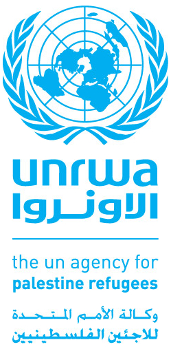 UNRWA logo UNRWA logo